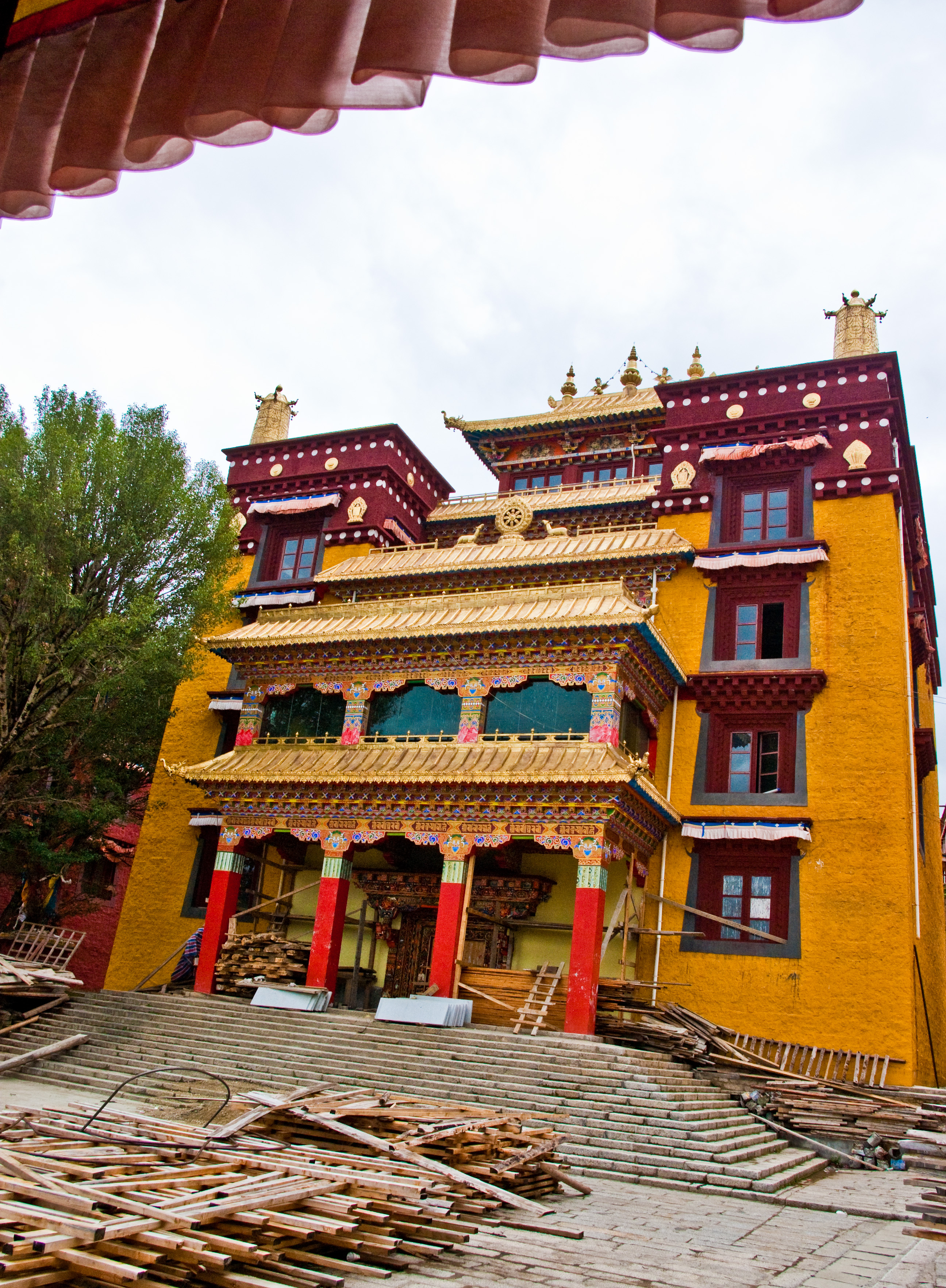 Litang Monastery